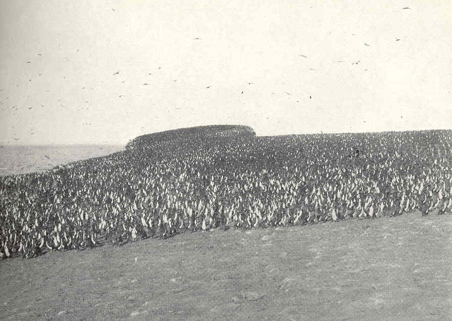 Very small portion of a flock of cormorants on the south island of the Chinchas Subject: Cormorants--Peru, Chincha Islands (Peru) Geographic Subject: Peru--Chincha Islands Tag: Water Birds